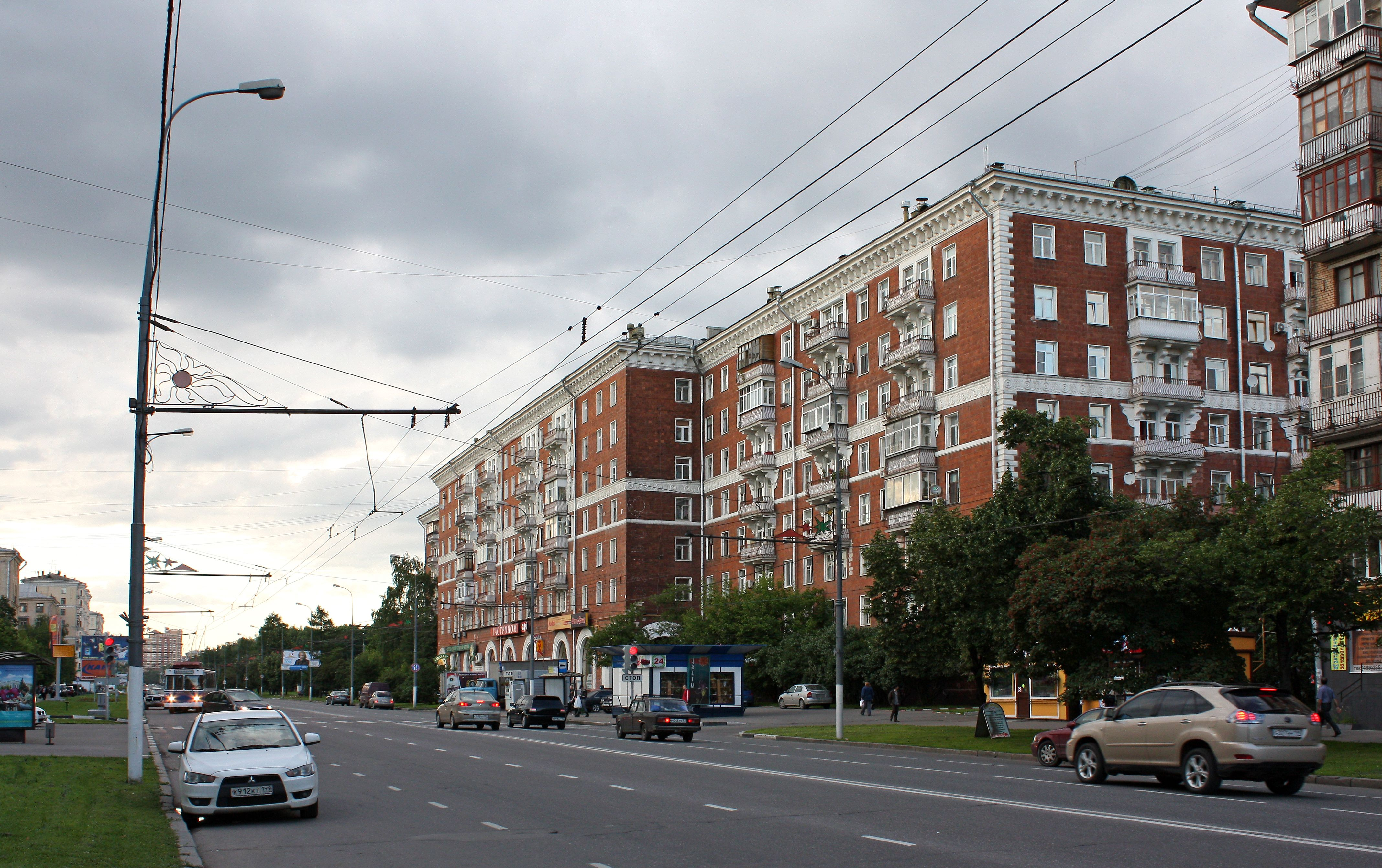 Moscow, Kuusinena street